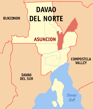 Map of the Davao del Norte showing the location of Asuncion